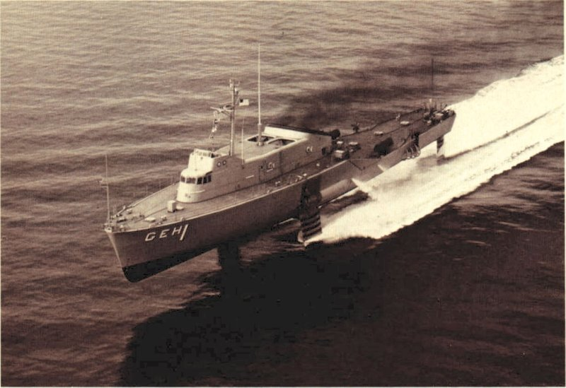 USS Plainview (AGEH-1) underway, circa 1973.